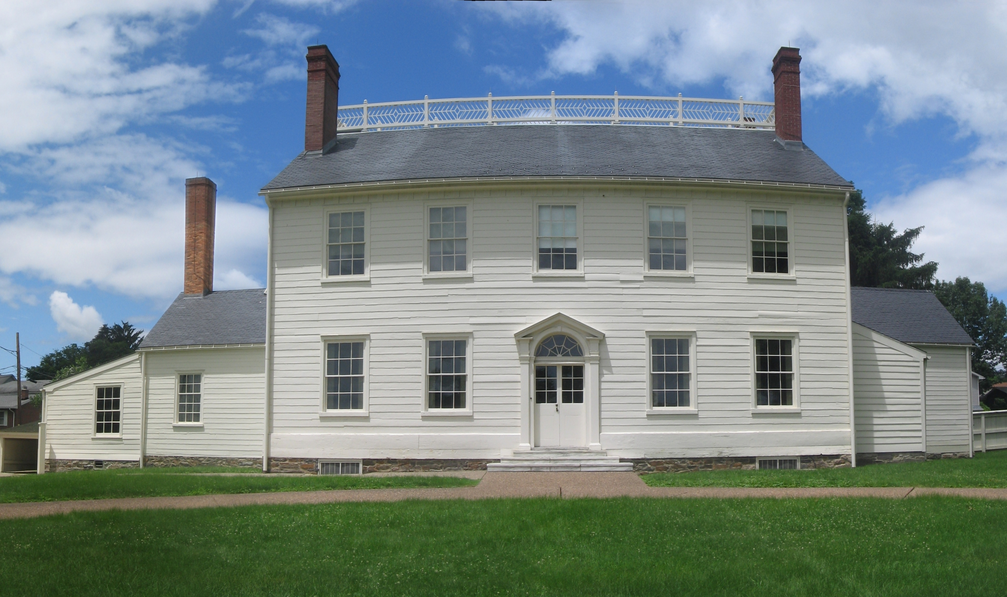 Front (river, southeast) side of the Joseph Priestley House in Northumberland, Northumberland County, Pennsylvania, USA. From left to right: Summer Kitchen, Kitchen wing, Main House, passage to Laboratory, Laboratory wing. Originally four vertical photographs. This panoramic image was created with Autostitch. Stitched images may differ from reality.